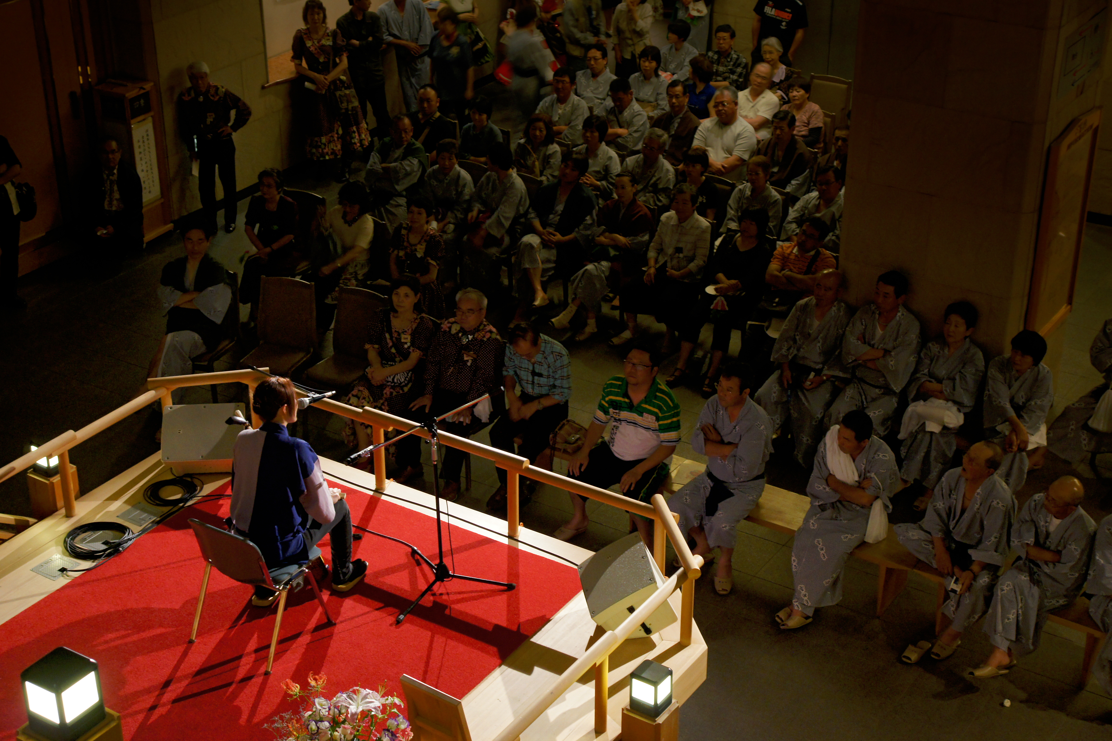 A Tsugaru-jamisen recital at Hotel Kaisenkaku in Asamushi Onsen, Aomori, Aomori prefecture, Japan.